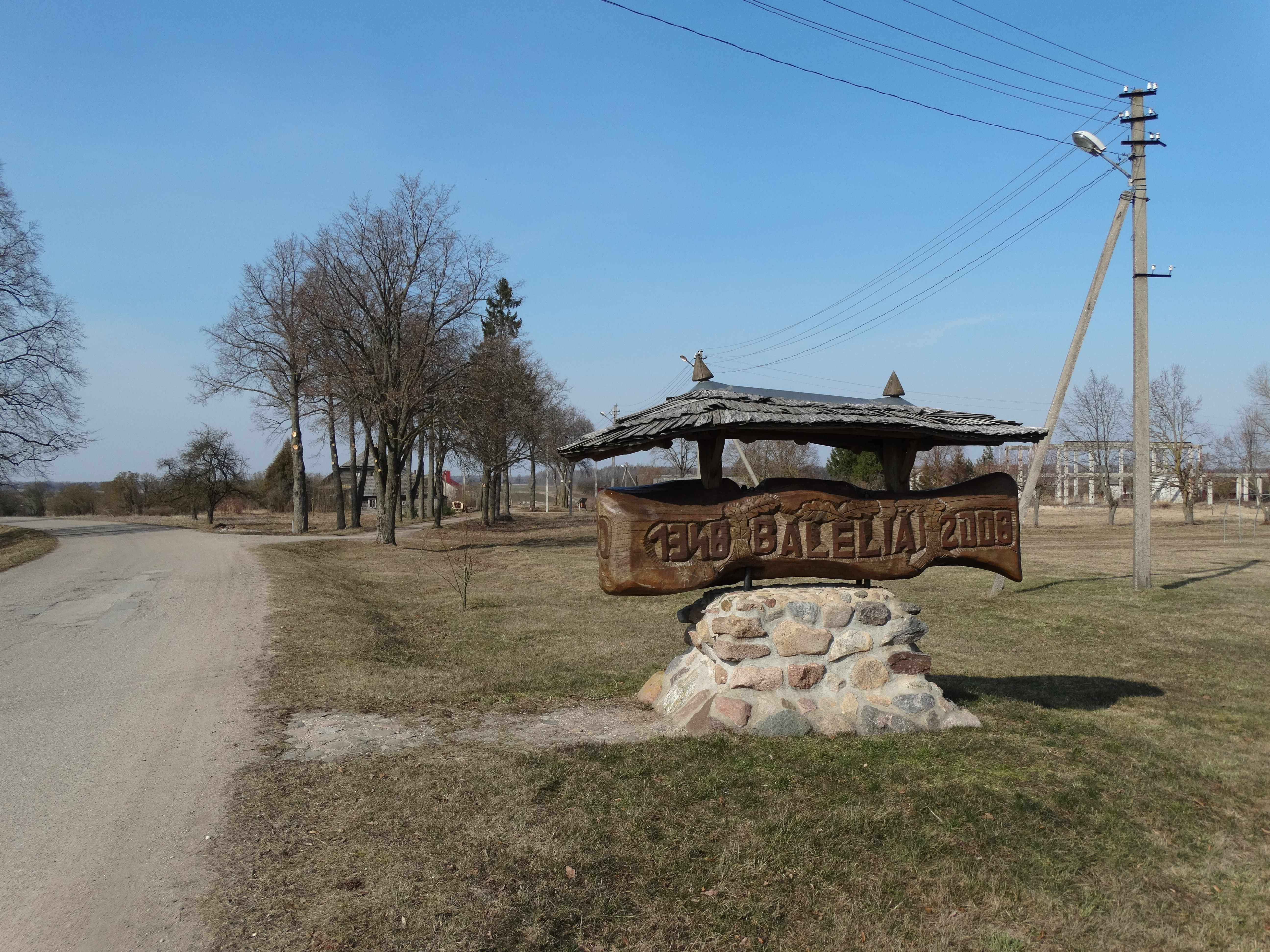 Baleliai, Ukmergė district, Lithuania